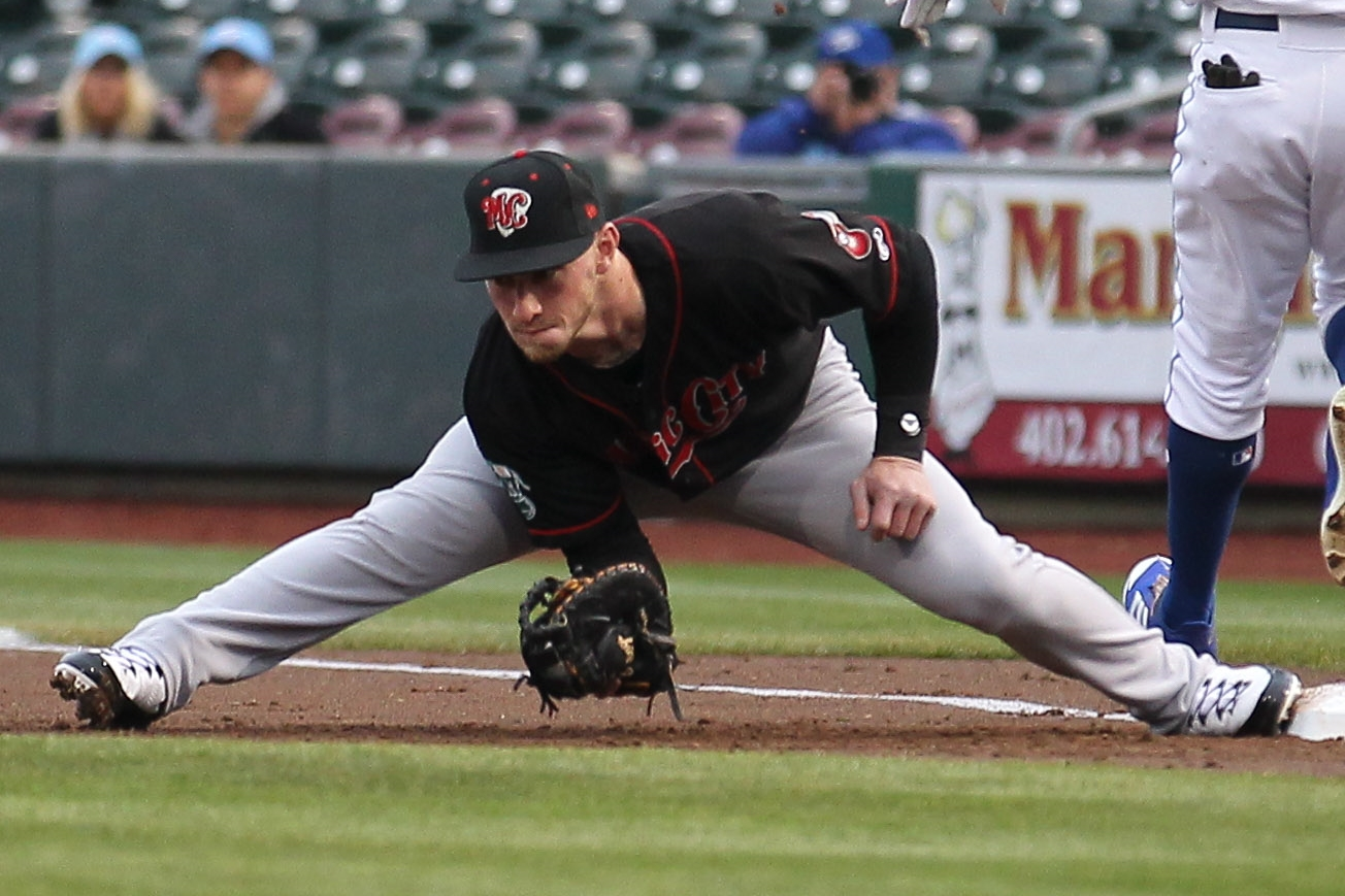 Slade Heathcott, Nashville Sounds first baseman (2018) Minda Haas Kuhlmann | 2018 - USAGE INSTRUCTIONS: You are welcome to share or publish to your own site or social media account, but you MUST credit me, Minda Haas Kuhlmann. Twitter: @minda33. Instagram: minda.haas